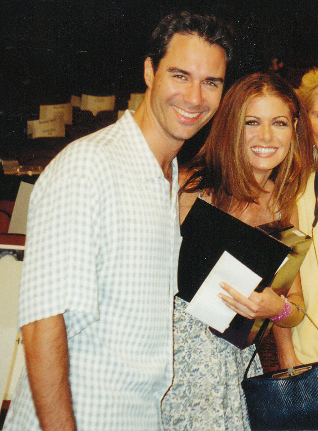 Eric McCormack, Debra Messing at the rehearsal for the 1999 Emmy Awards